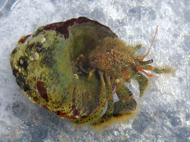 . at Nagasaki.